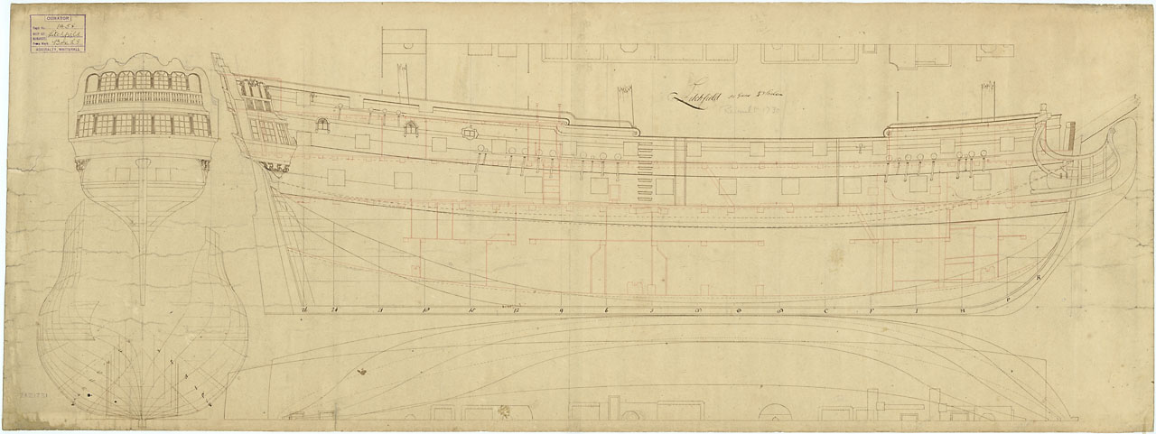 Lichfield (1730) [alternative spelling: Litchfield] Scale: 1:48. Plan showing the body plan, stern board outline with some detail, sheer lines with inboard detail, and longitudinal half-breadth for Lichfield (1730), a 1719 Establishment 50-gun Fourth Rate, two-decker. The plan includes some upper and lower deck details relating to hatches, capstan, and mast positions. LICHFIELD 1730